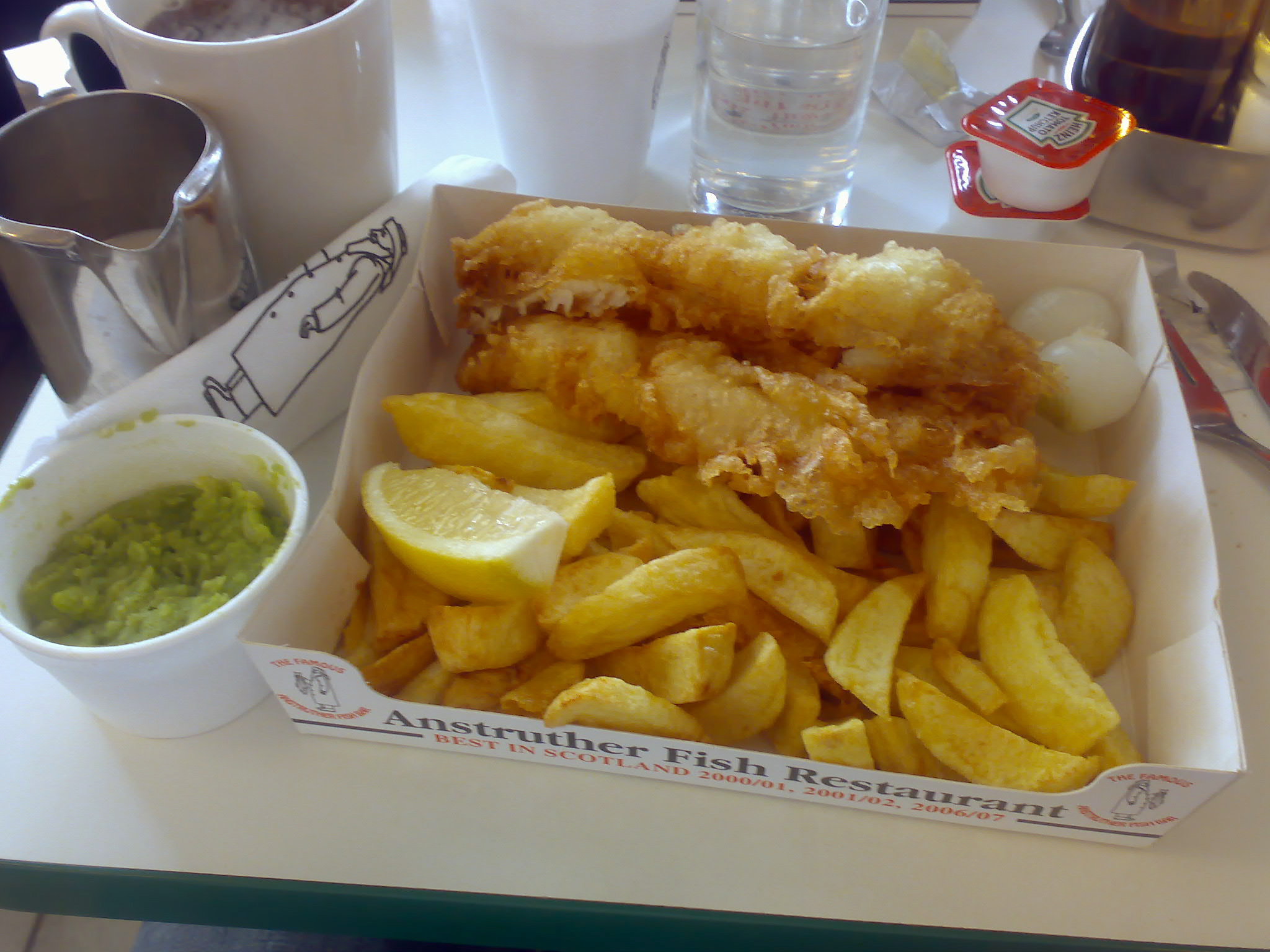 From the